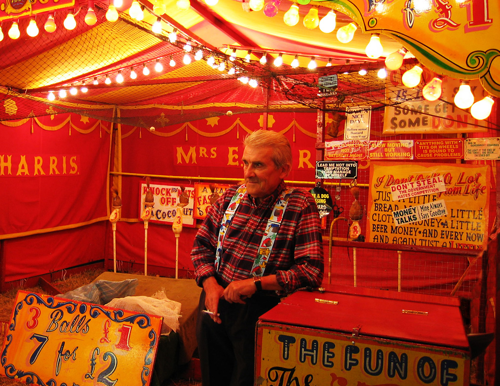 Albert Harris and his coconut shy – Cambridge Midsummer Fair 2005 In common with most fairground workers, Albert Harris has been in the fair all his life and comes from a long line of fair people. Although he is now past retirement age, he continues to run the Coconut shy established by his mother, Mrs. E. Harris, in 1936. Note the coconuts on the numbered posts at the back of the stall, and a couple of the white painted wooden balls thrown by players, caught in the netting at the top of the picture.